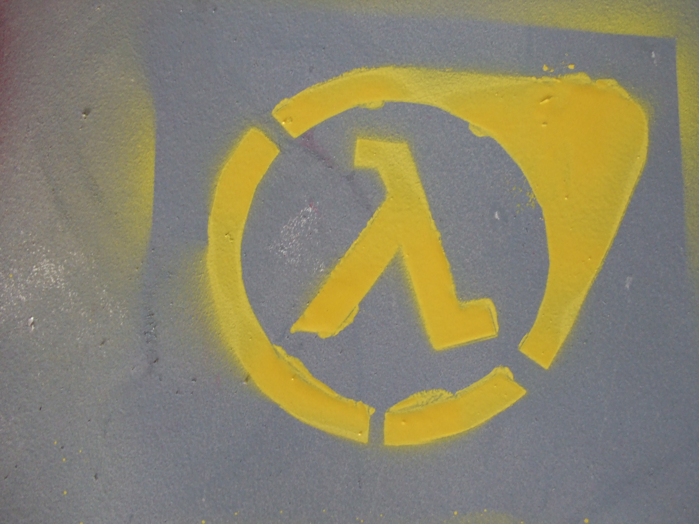 A piece of Stencil Art.